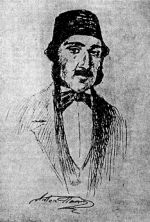 Portrait of Anton Pann — Wallachian writer